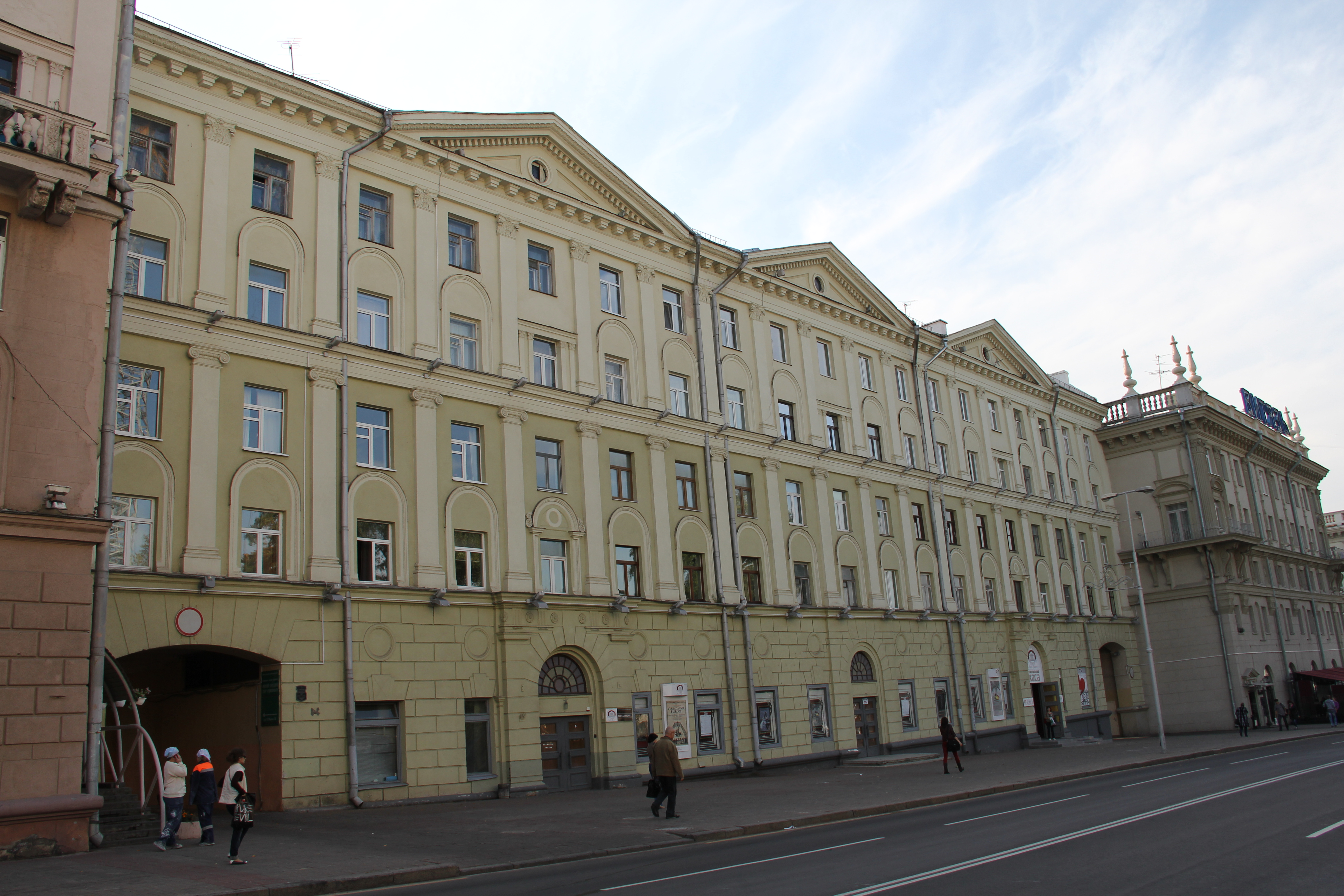 Беларуская (тарашкевіца): Будынак. г. Менск This is a photo of Belarusian heritage monument. Reference number: 713Г000276 ( WLM)